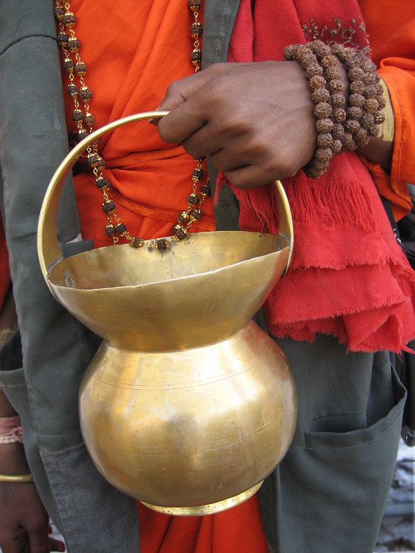 Sadhu's collection vessel Kamandalu. As far as I know its for holy water.